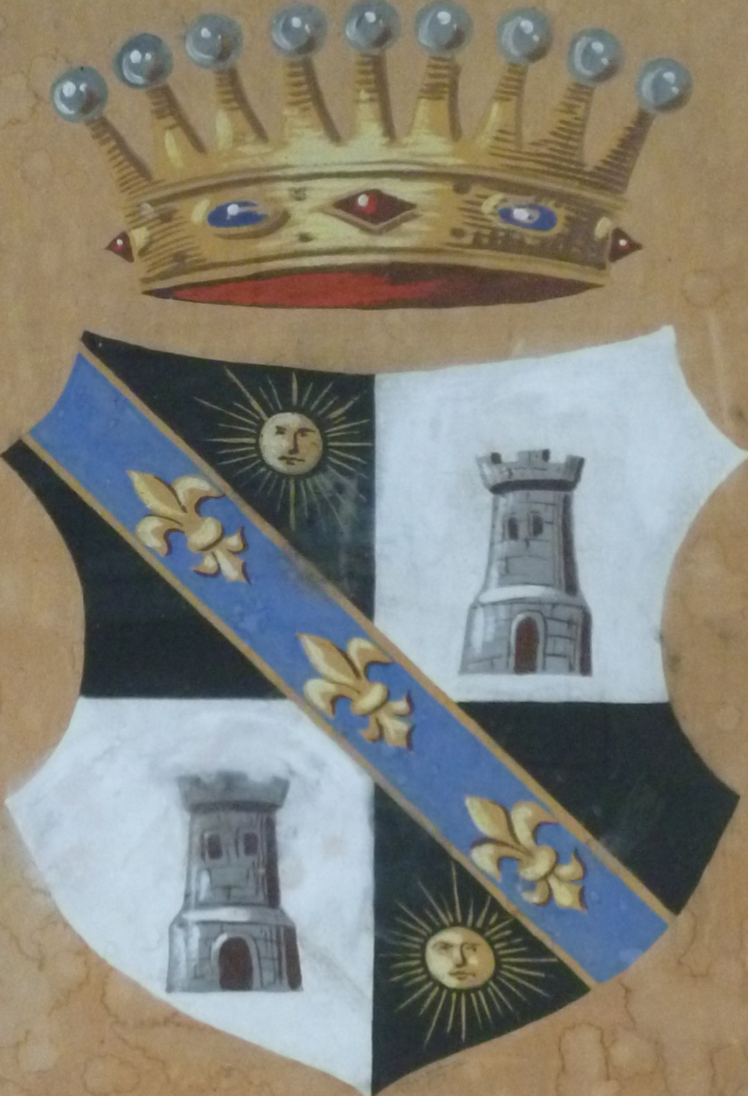 Coat of arms of Vilmos Migazzi. Contemporary (1896) poster in mausoleum in Zlaté Moravce.